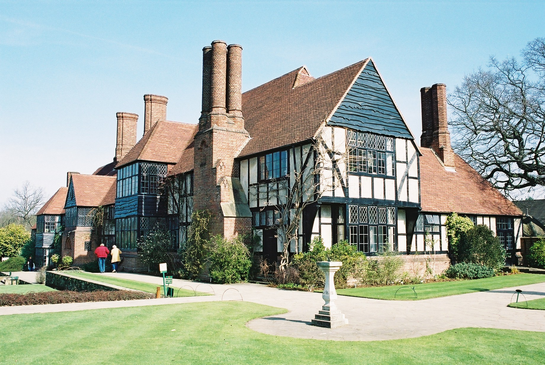 Laboratory building in the Royal Horticultural Society's Wisley Gardens.